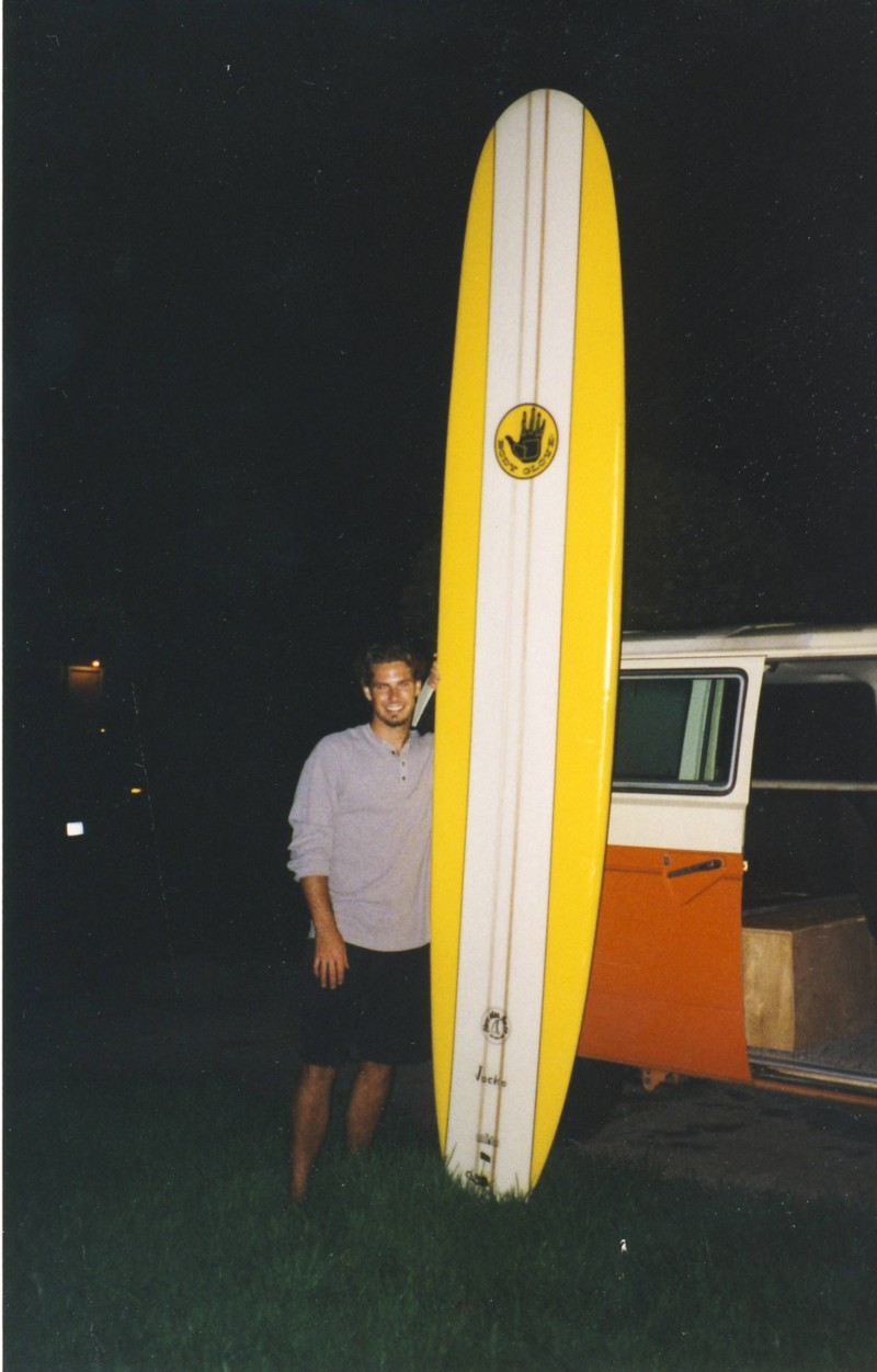 An extreme example of a longboard surfboard. It is 335 cm (11 ft) long and 12 cm (4 1/2 inches) thick.